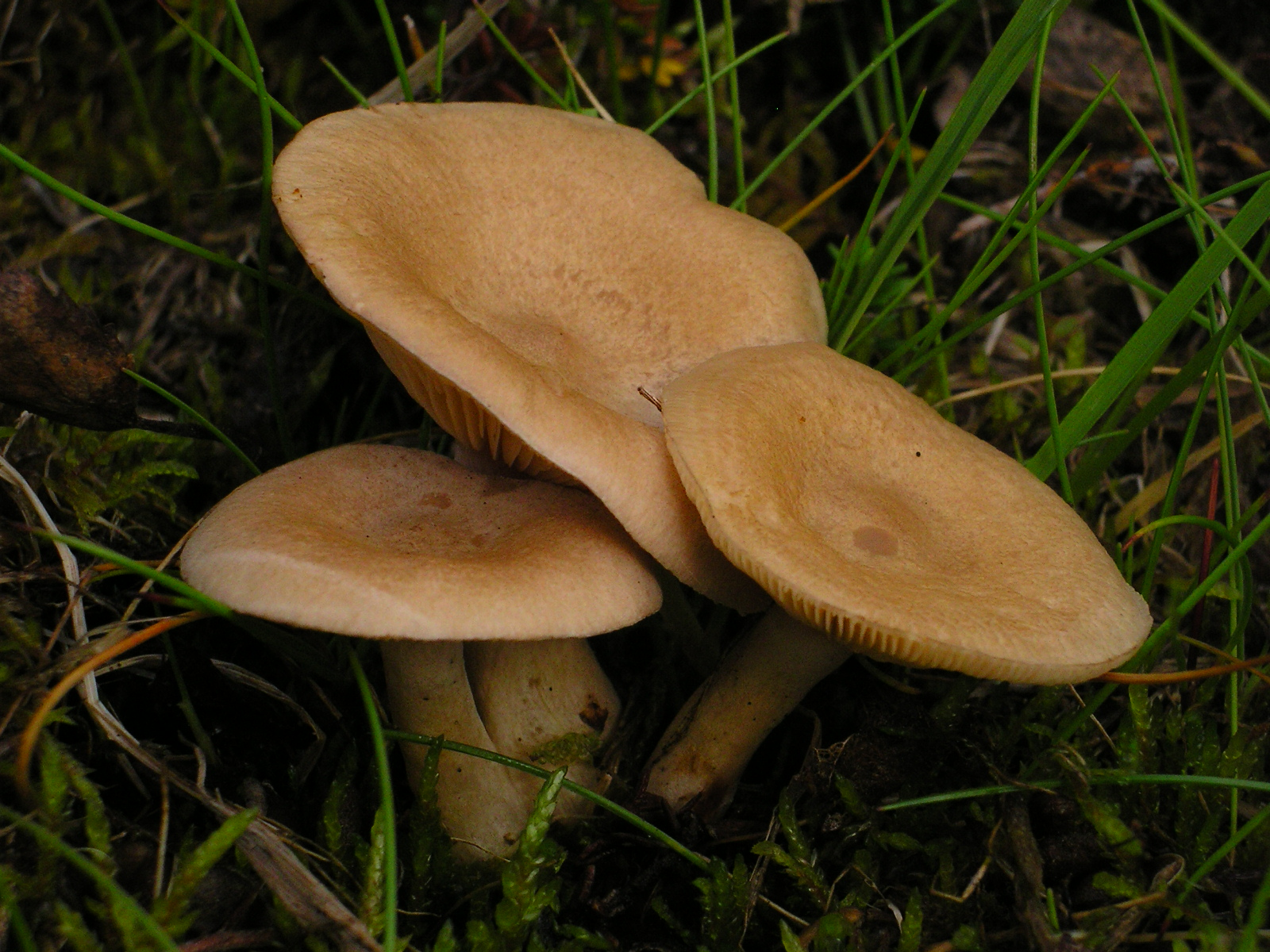 Lactarius glyciosmus (Fr.) Fr. Image location: Lapland, Sweden Grows with Betula, constantly pale beige coloured, often in lawns Recognized by sight: Easily recognized by the smell of coconuts For more information about this, see the observation page at Mushroom Observer.